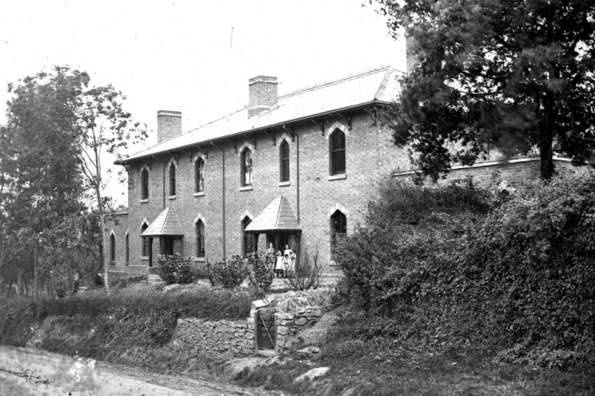 Leominster Orphans Homes on Ryelands Road